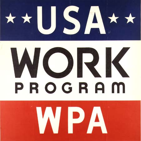 Logo of the Works Progress Administration.